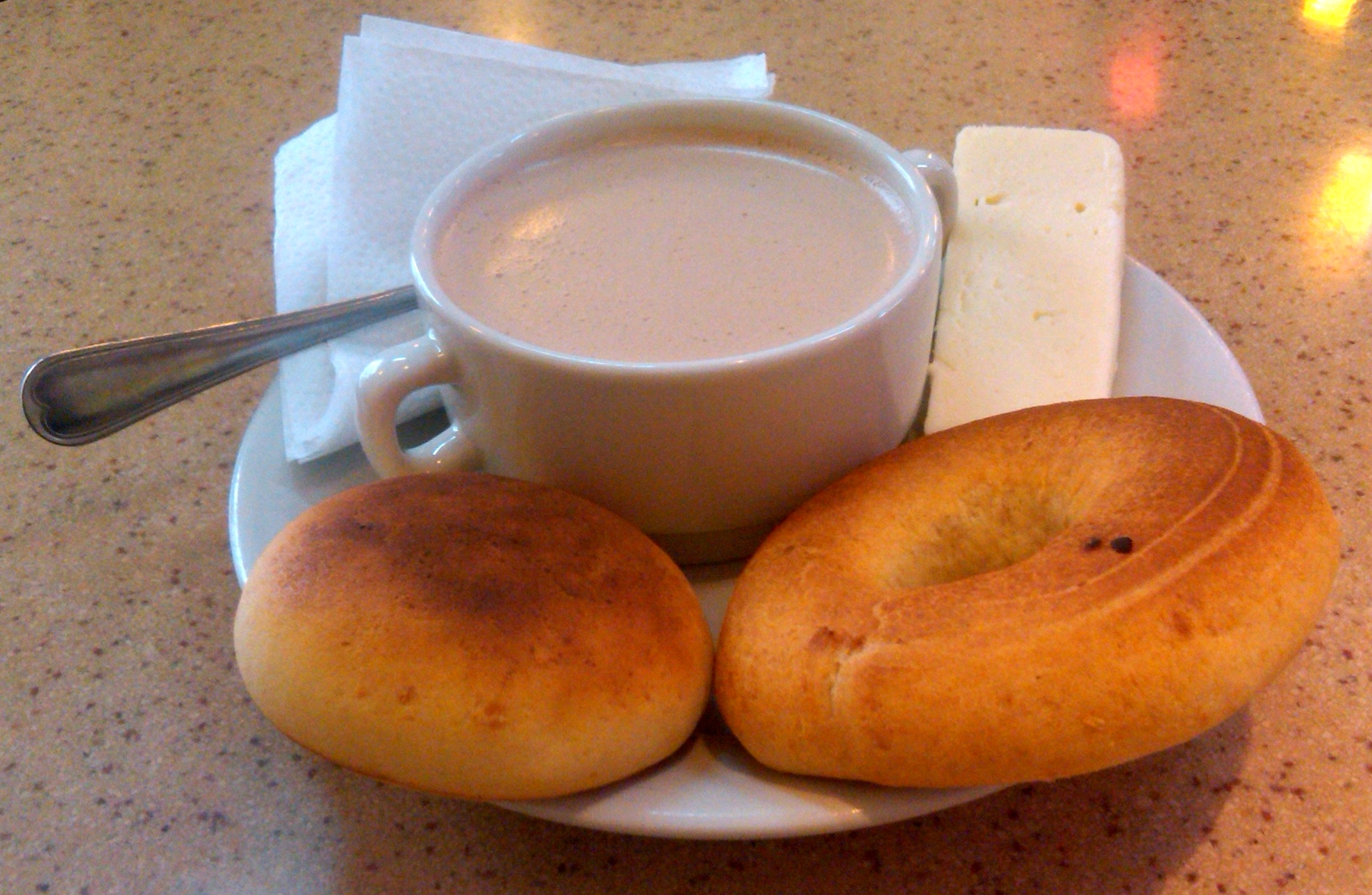 A traditional breakfast from Bogotá and surrounding regions, this features hot chocolate, cheese (mozzarella), and two kinds of bread (almojábanas and pan de yuca)